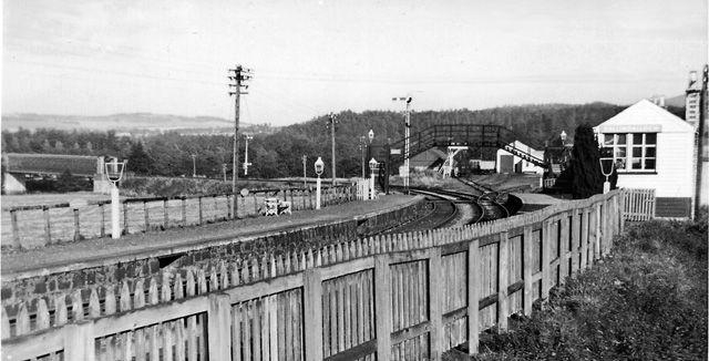 Ballindalloch Station. View NE, towards Craigellachie: branch line from Craigellachie to Boat of Garten, closed to passengers 18/10/65, to Goods 4/11/68